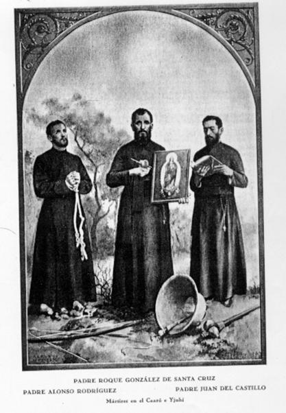 Print with the Saint Jesuit Martyrs of Paraguay, 1628, published in 1919